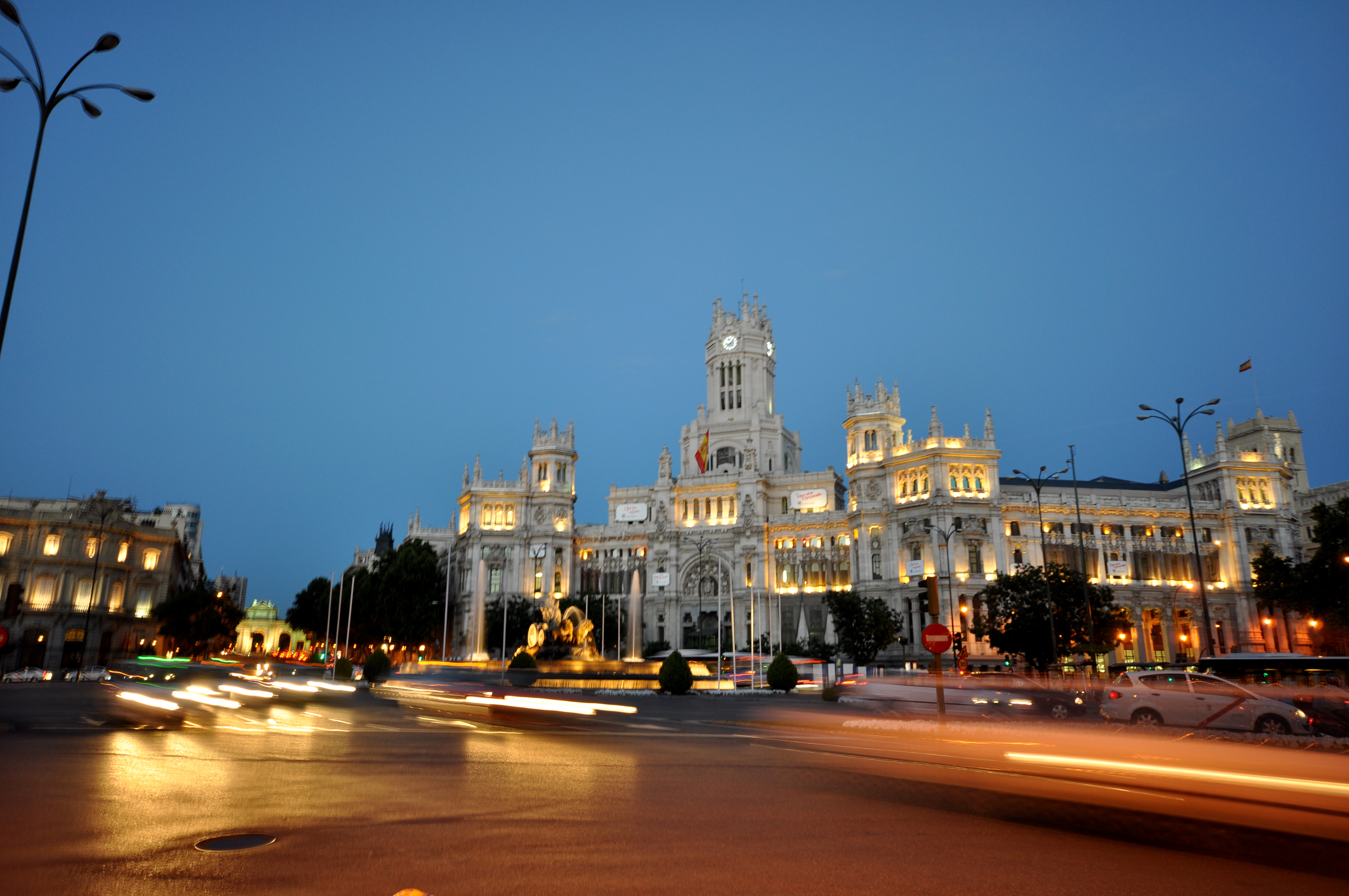 Night view from Plaza de Cibeles (square) in Madrid (Spain). In the background, Palacio de Comunicaciones (Madrid's city hall since 2007).